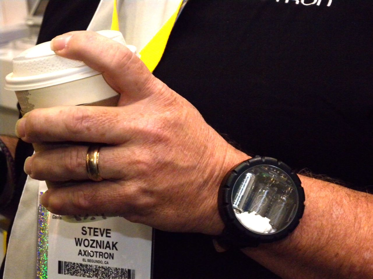 A "Nixie" watch as worn by Steve Wozniak, co-founder of Apple, Inc. Nixie tubes are not operating in this photo.